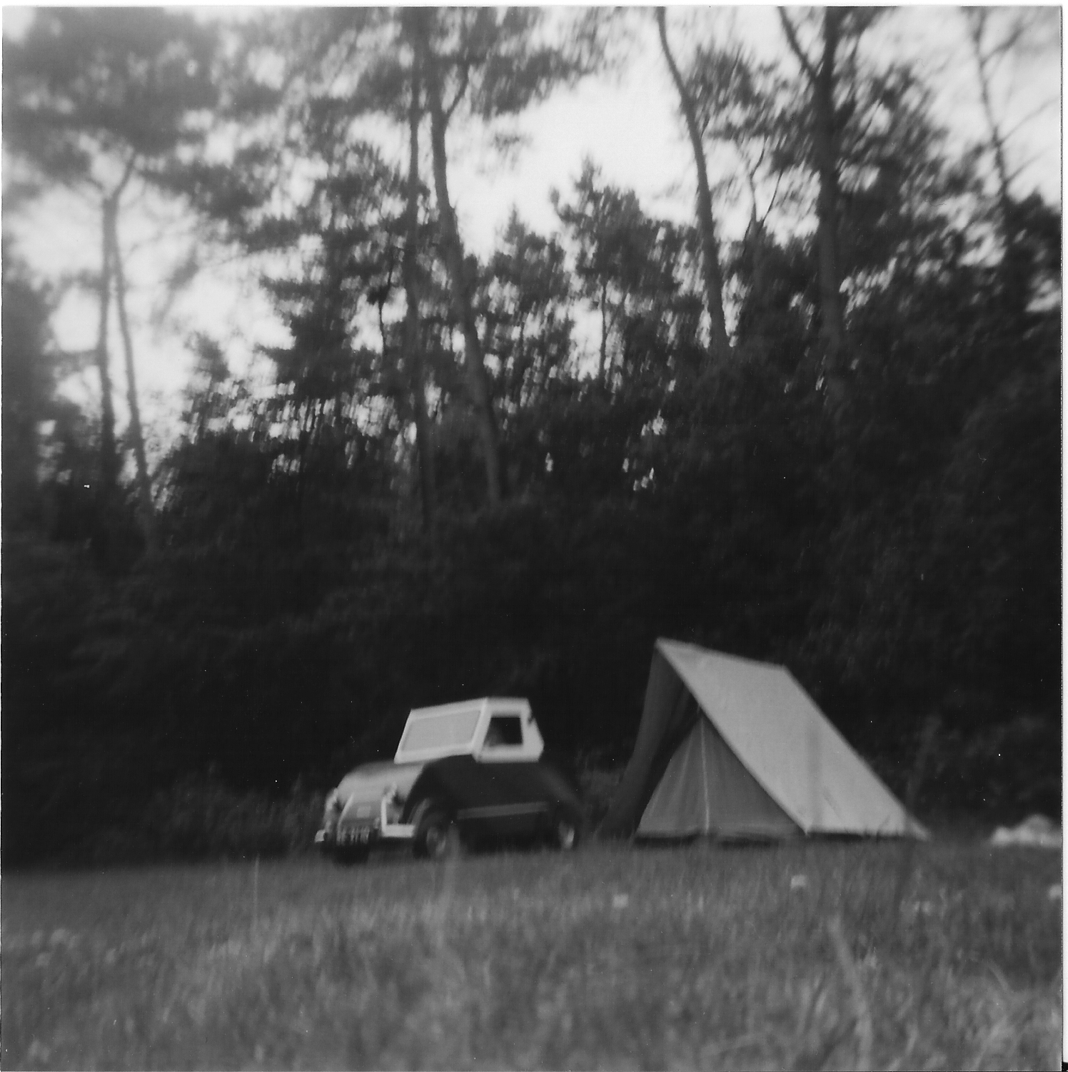 MEGO Bromauto